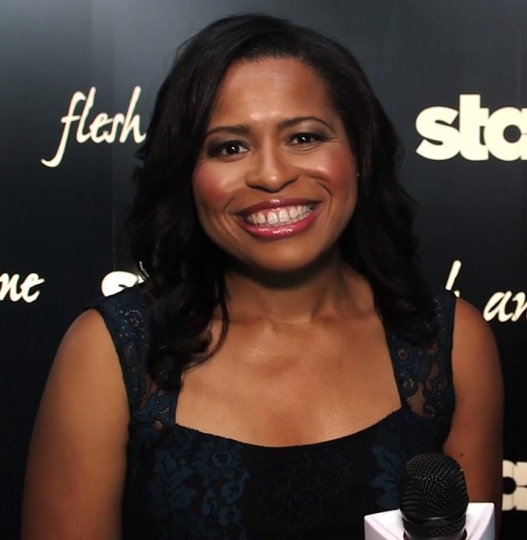 Power showrunner Courtney Kemp Agboh talks to Arthur Kade of Behind the Velvet Rope at Starz's "Flesh and Bone" red carpet.